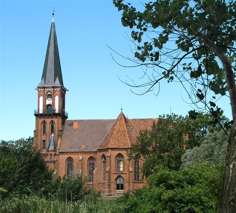 Wustrow, Mecklenburg, Germany: Church, photo 2003